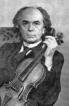 Czech violonist a composer Jan Kubelík.